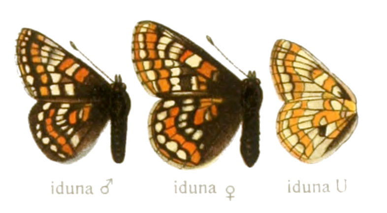 Euphydryas iduna